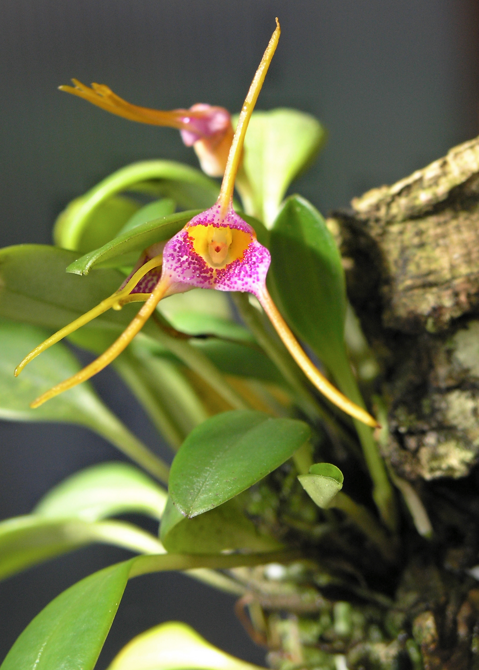 Orchid: Masdevallia Confetti, flower and plant Hybrid Detail: Masdevallia strobelii X Masdevallia glandulosa Scent: candy root beer barrels